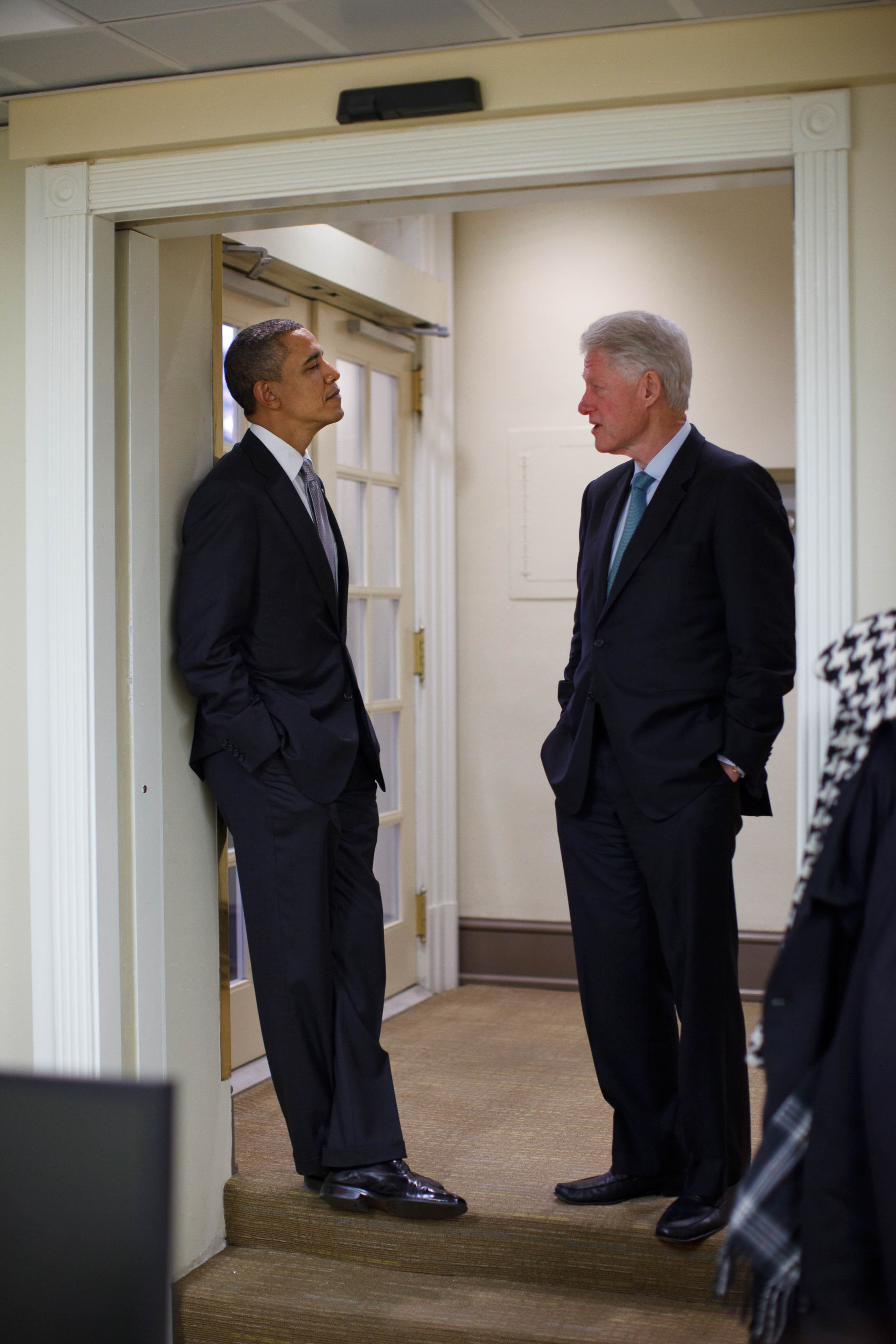 Dec. 10, 2010 "The President had just met with former President Clinton late on a Friday afternoon. When they emerged from the Oval Office, the President said, "We're going to the press briefing room." I had walked ahead of them and, upon reaching the briefing room, found that the door was locked: the press office staff were all attending a White House Christmas party in the residence. So we went to find Robert Gibbs. "We're looking for some reporters," the President said, when we found Robert Gibbs in his office. Returning to the briefing room, the two Presidents waited until someone found a key, before doing an impromptu news conference." (Official White House Photo by Pete Souza) This official White House photograph is in the public domain from a copyright perspective, so while restrictions such as personality or privacy rights may apply, in general, manipulations are allowed.